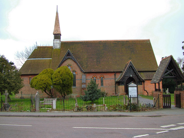 Holy Trinity parish church, Hertford Heath, Hertfordshire, seen from the north